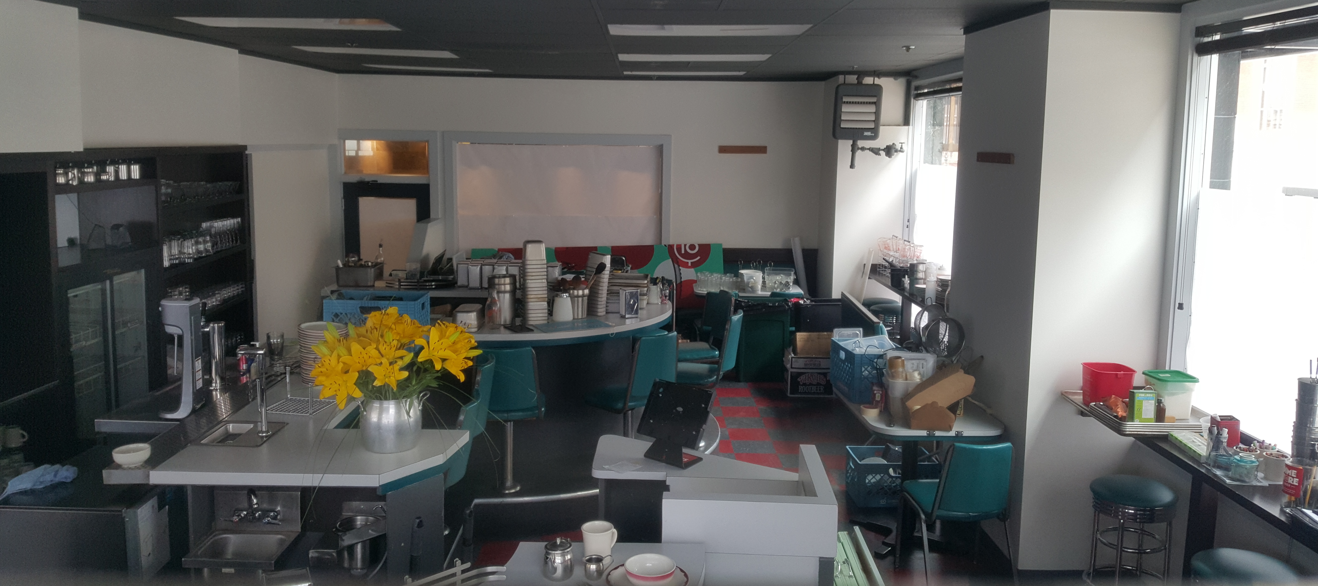 Interior of The Dime Store in Portland, Oregon in March 2016. The diner closed in 2015. I took a picture from outside the window.